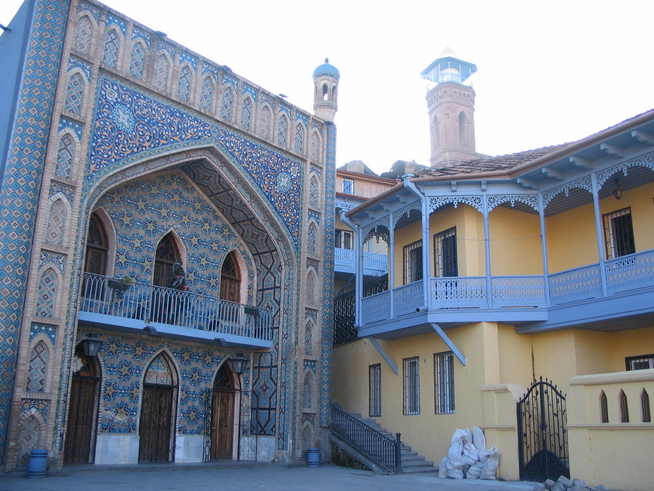 Orbeliani Baths, Abanotubani district, Tbilisi, Georgia